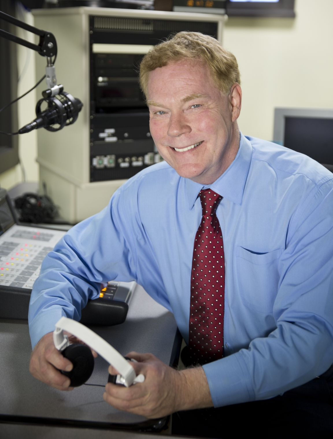 Jim Engster